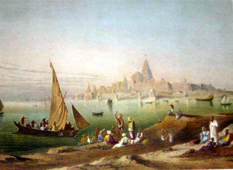 "The sacred town and temples of Dwarka," from Grindlay's 'Scenery, Costumes and Architecture chiefly on the Western Side of India', London, 1826-30 Source: ebay, July 2004